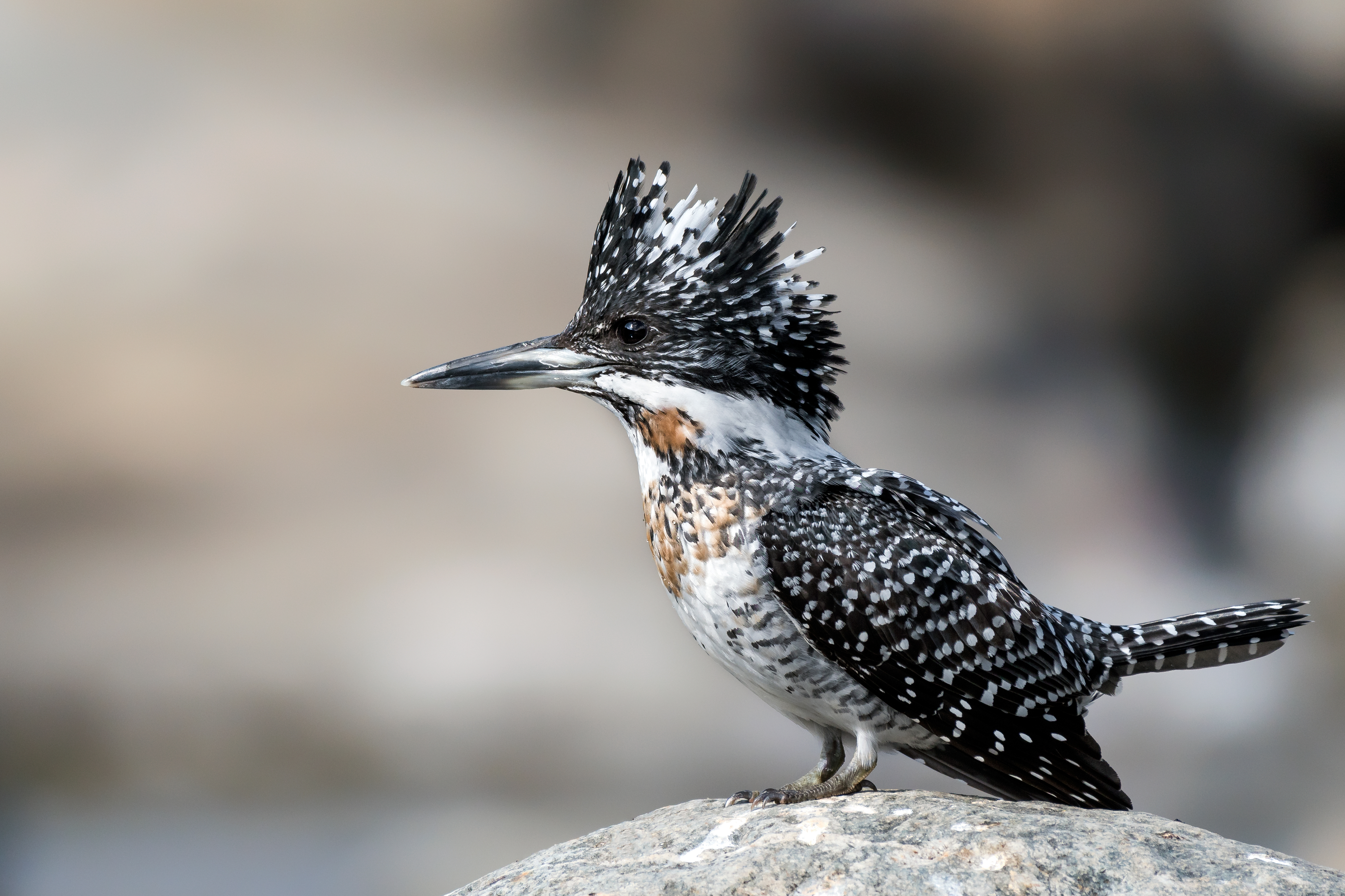 Crested Kingfisher, clicked in Uttarakhand, India, by Prasanna Kumar Mamidala